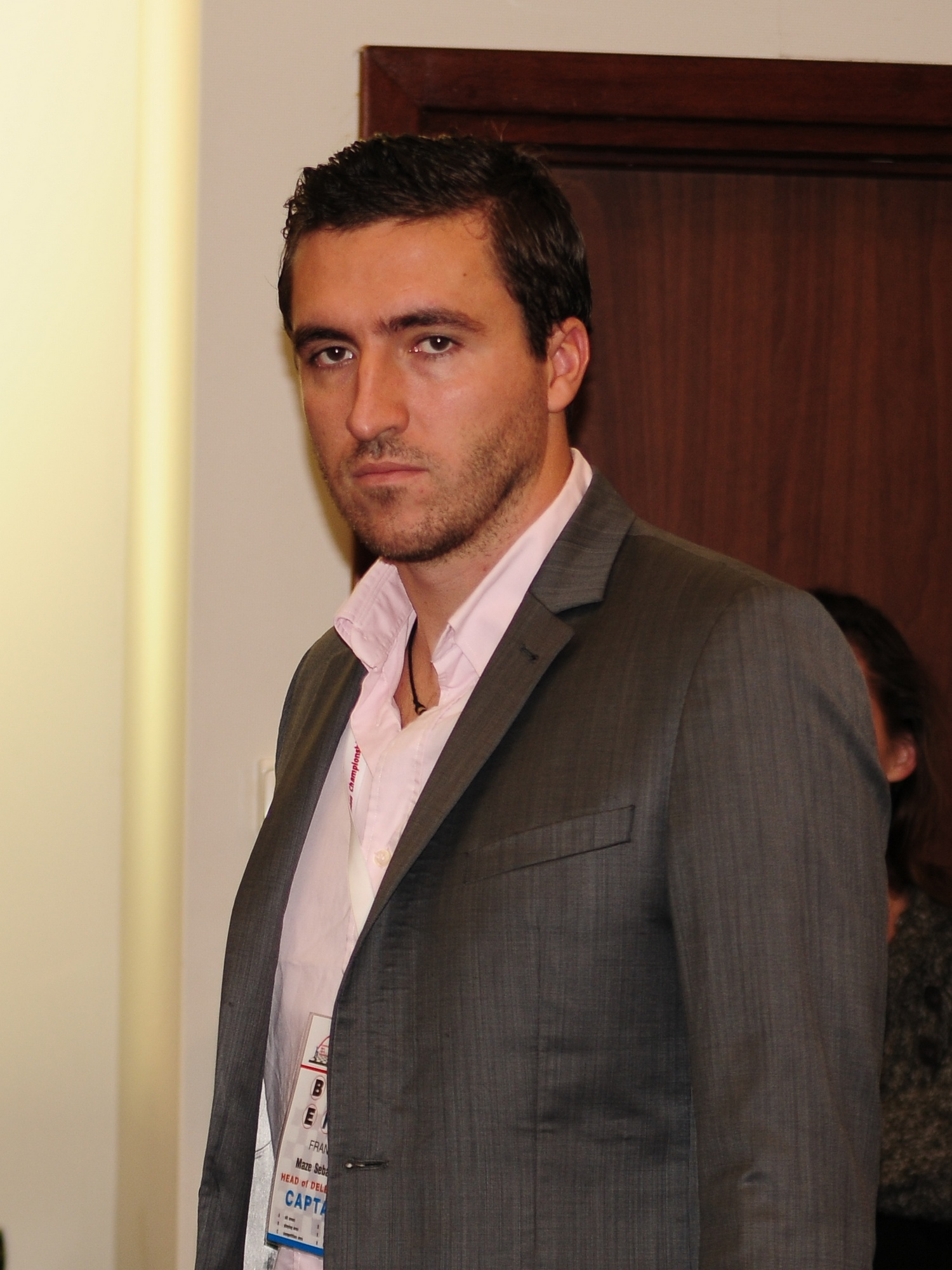 GM Sébastien Mazé, European Chess Team Championship Warsaw 2013